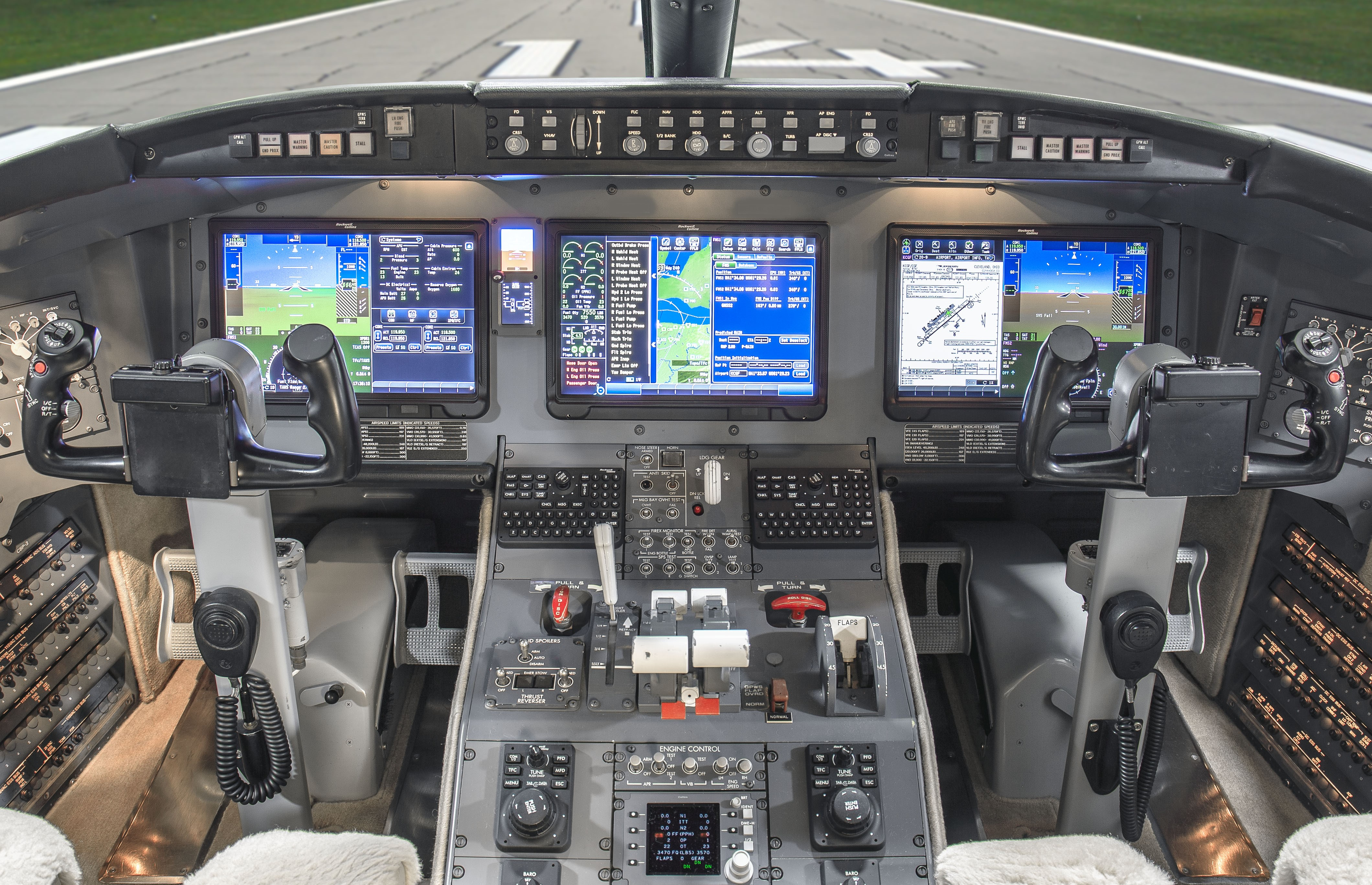 This is a production cockpit delivered in early 2019. As of October 29, 2019 Constant Aviation, who is Nextant's exclusive 604XT dealer, has delivered 23 production aircraft.